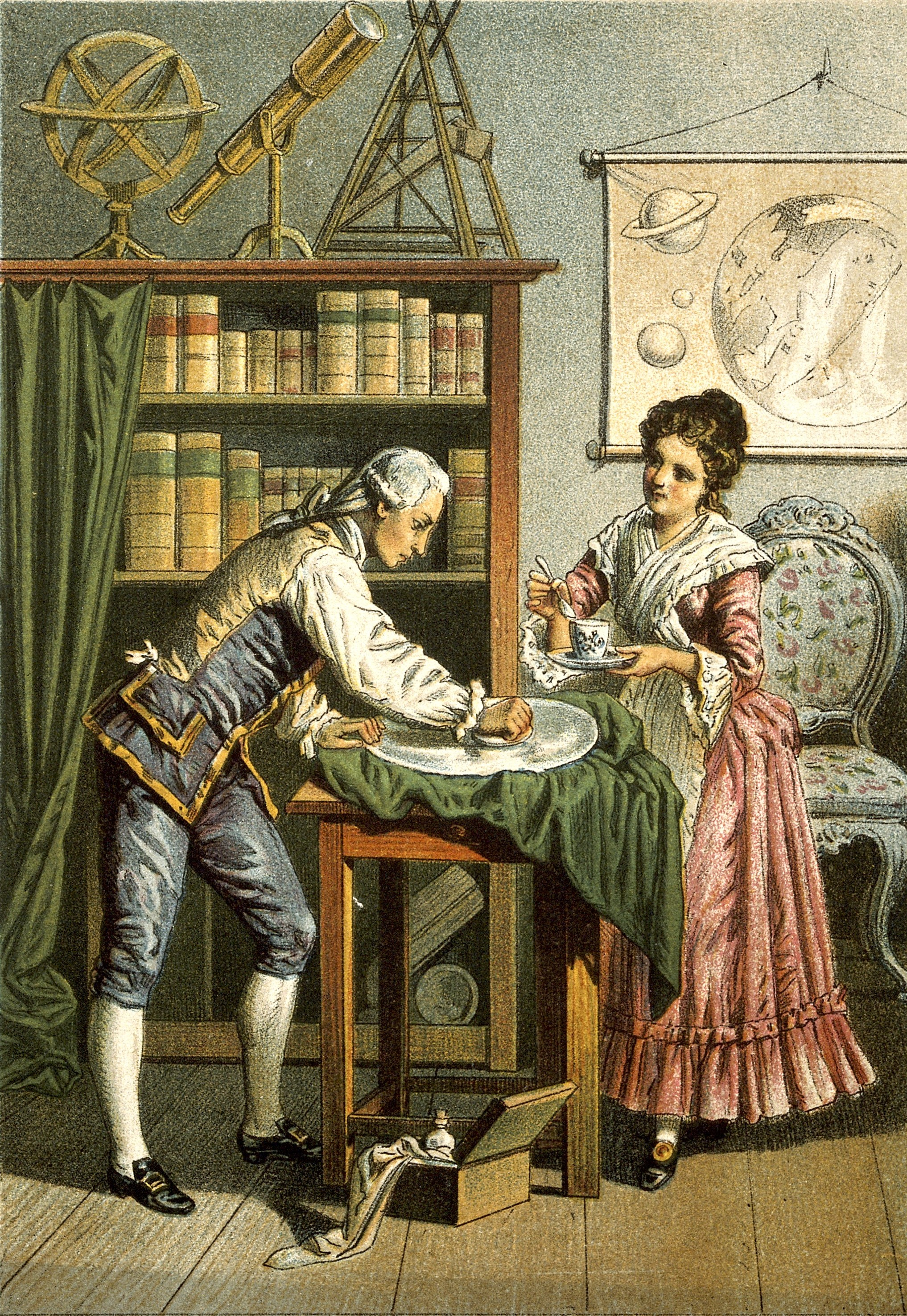 1896 Lithograph. Genre/Technique: Portrait prints. Lithographs. Subject name: Herschel, William Sir, 1738-1822.